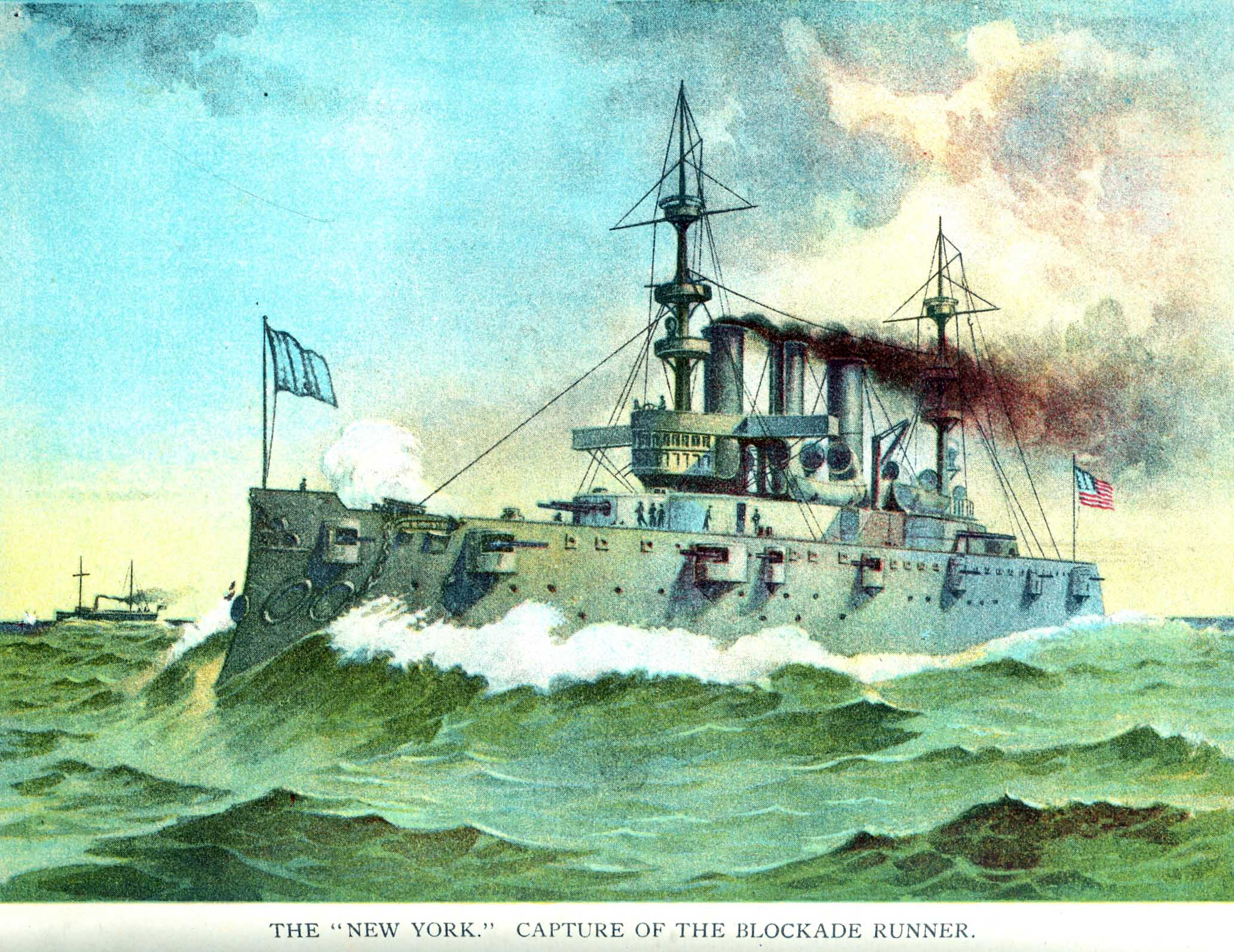 USS New York 1898